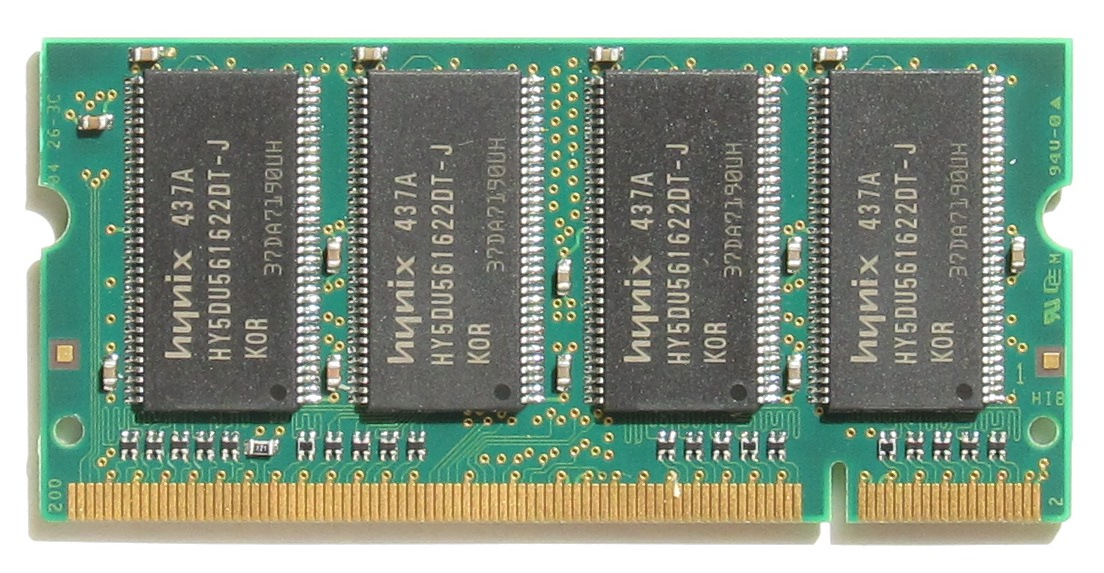 256MB DDR SO-DIMM